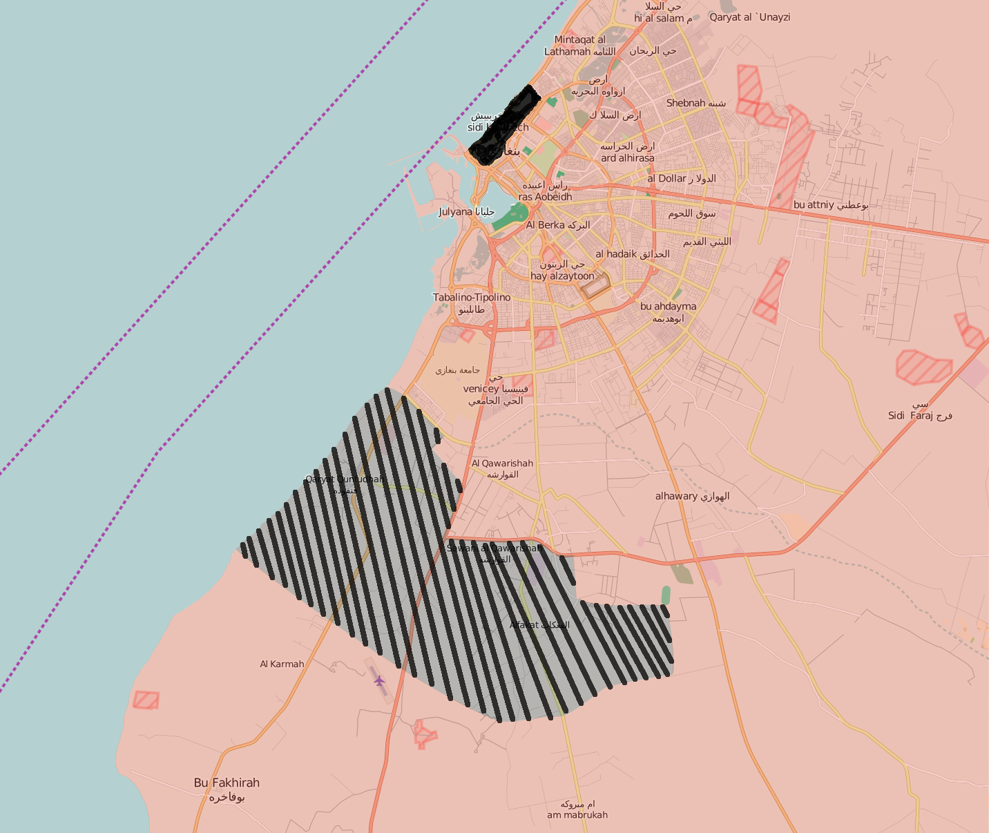 Benghazi Conflict Detailed map